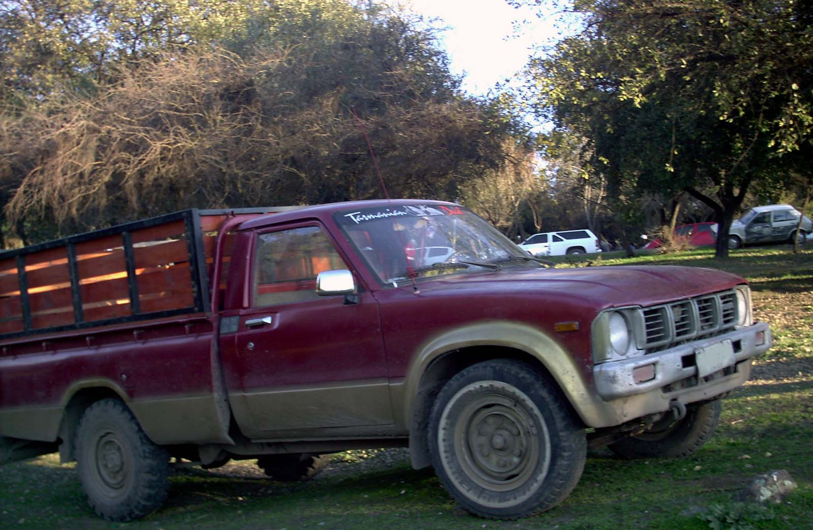 1981 Toyota Stout - the bed is not bent, the wide gap between it and the cab is simply the result of using the old sixties Stout rear bodywork coupled with the front end of the third generation Hilux.